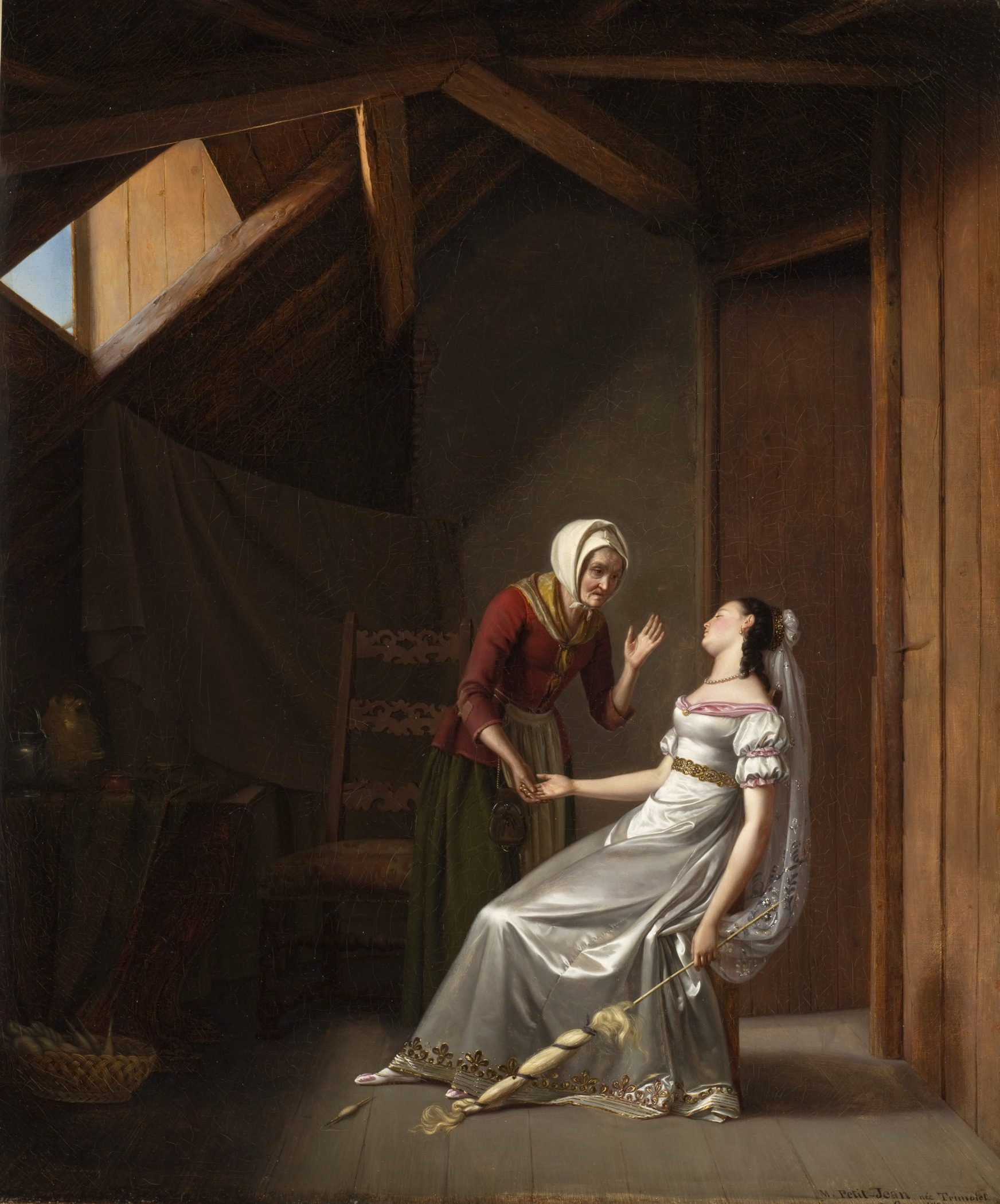 1821 Paintings Oil on canvas Gift of Etienne Breton, Saint-Honoré Art Consulting (M.2012.61) European Painting